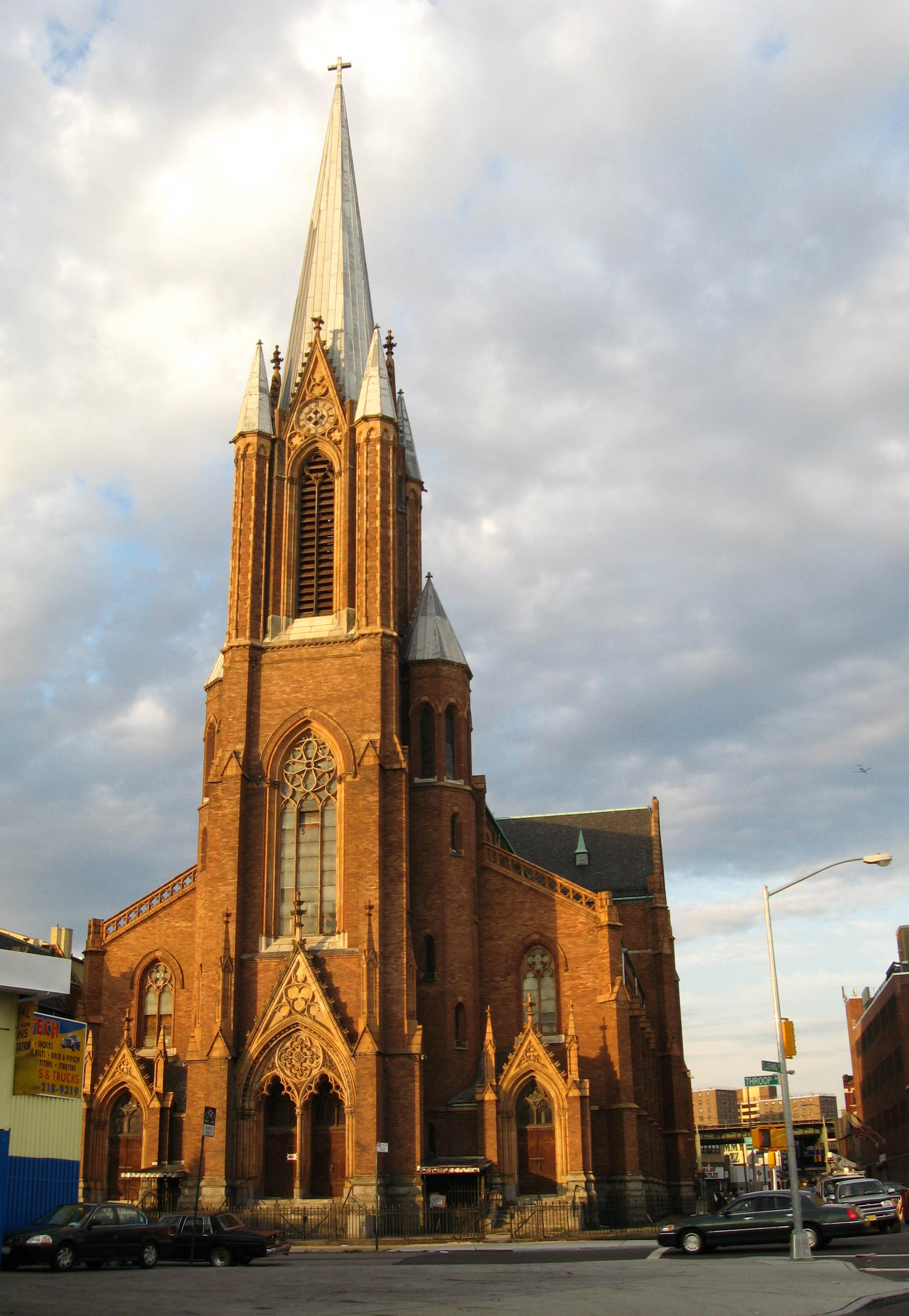 Looking northeast from Flushing Avenue, across Throop Avenue and along Thornton Street at the All Saints Roman Catholic Church on the northeast side of Throop Avenue late in a mostly sunny afternoon.